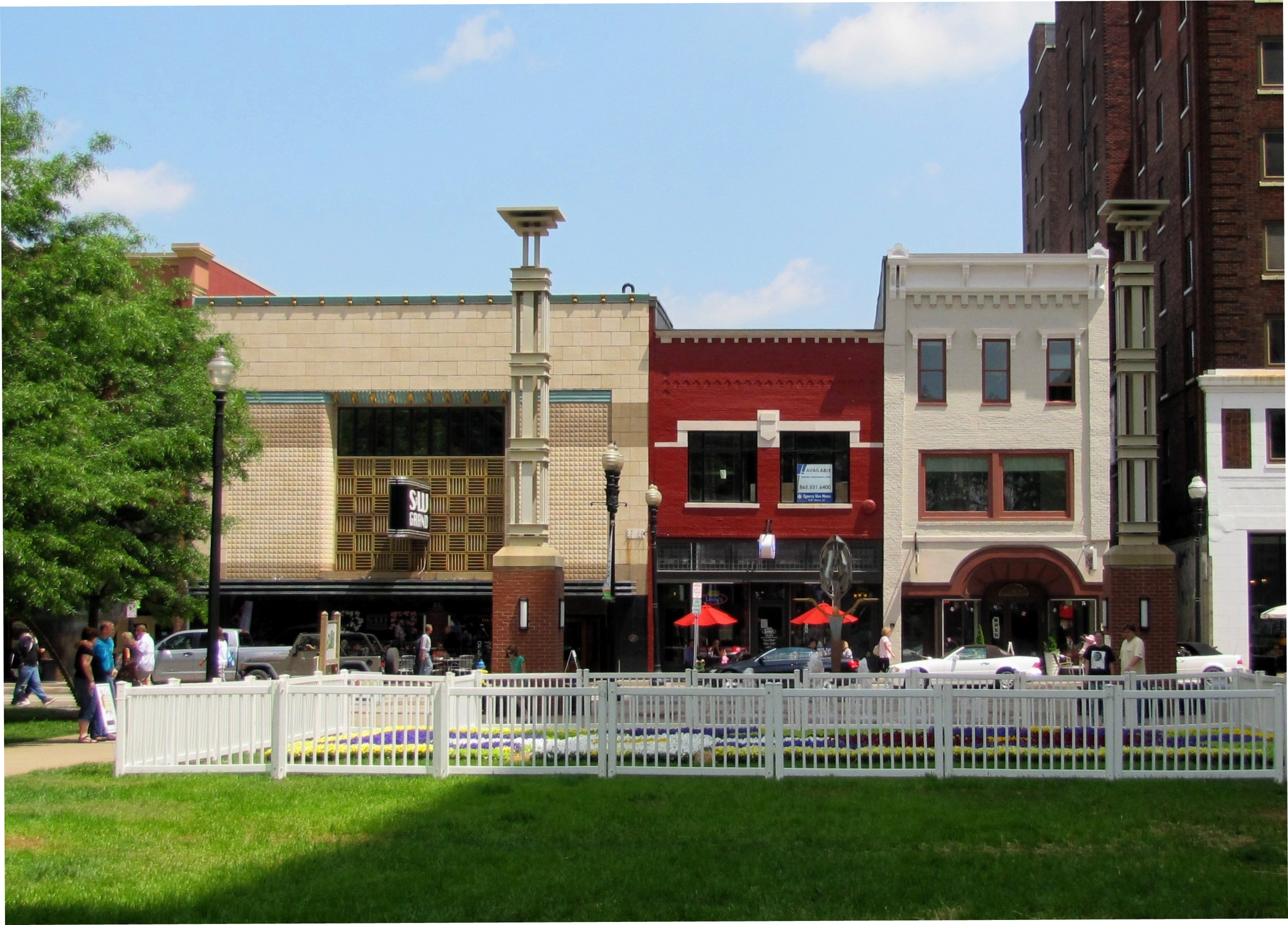 View of Gay Street's 500 block from Krutch Park in Knoxville, Tennessee, USA. The tan building on the left is the S&W Cafeteria (516-518 S. Gay St.), built in 1936. The red building in the middle (520 S. Gay St.) is known as the "Athletic House" (after a store that once occupied it), built in 1923. The off-white building to the right of the Athletic House building is the former Central House Hotel (522 S. Gay St.), built in 1875. This latter building was home to WROL studios in the 1930s.